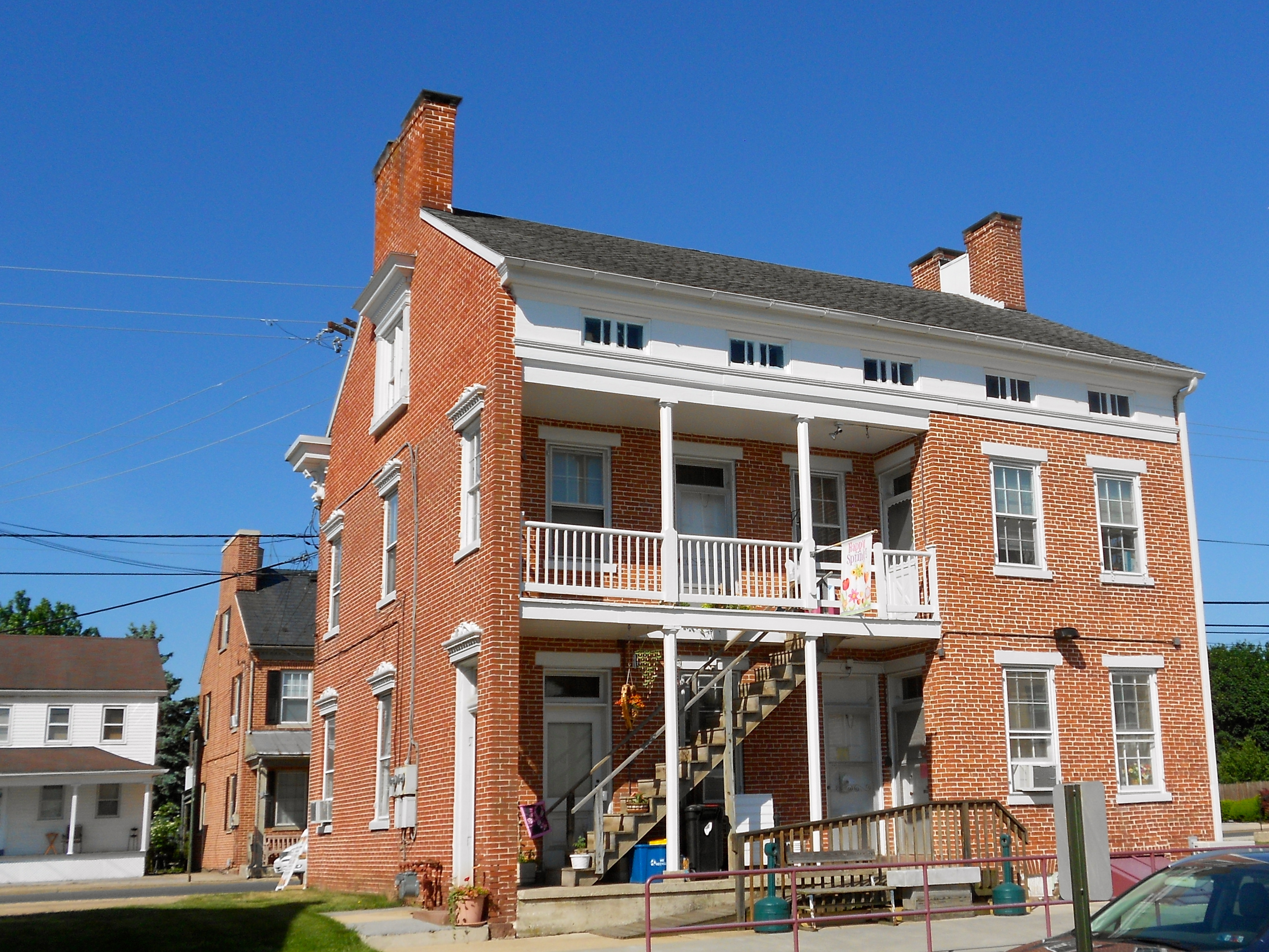 Back of Englehart Melchinger House, listed on the National Register of Historic Places on August 12, 1992, at 5 North Main Street, Dover, Pennsylvania. Located next to Calvary Lutheran Church, the house serves as a parish house.